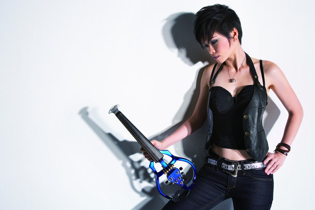 Joanne Yeoh, electric violinist